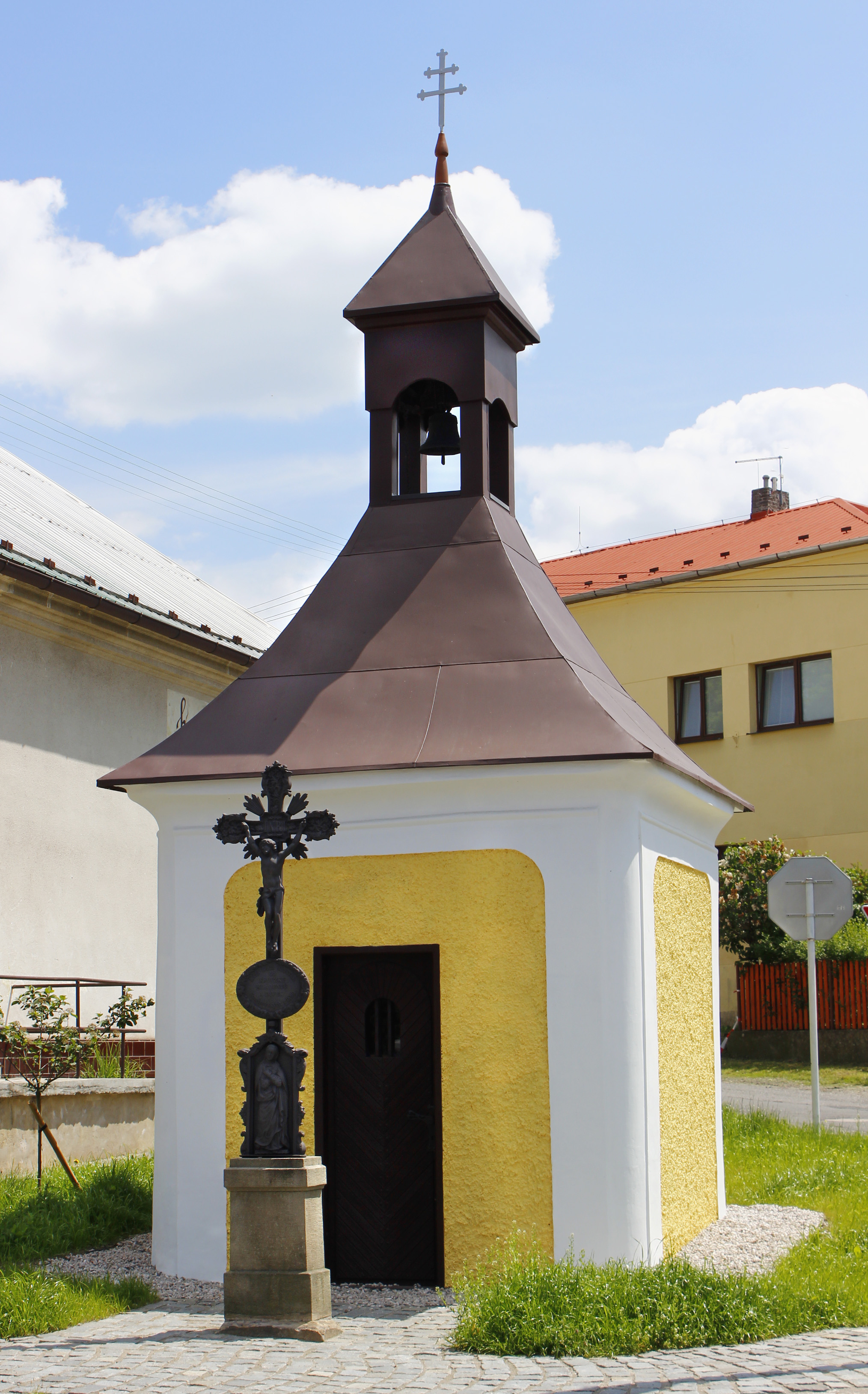 Small chapel in Komárov, Czech Republic